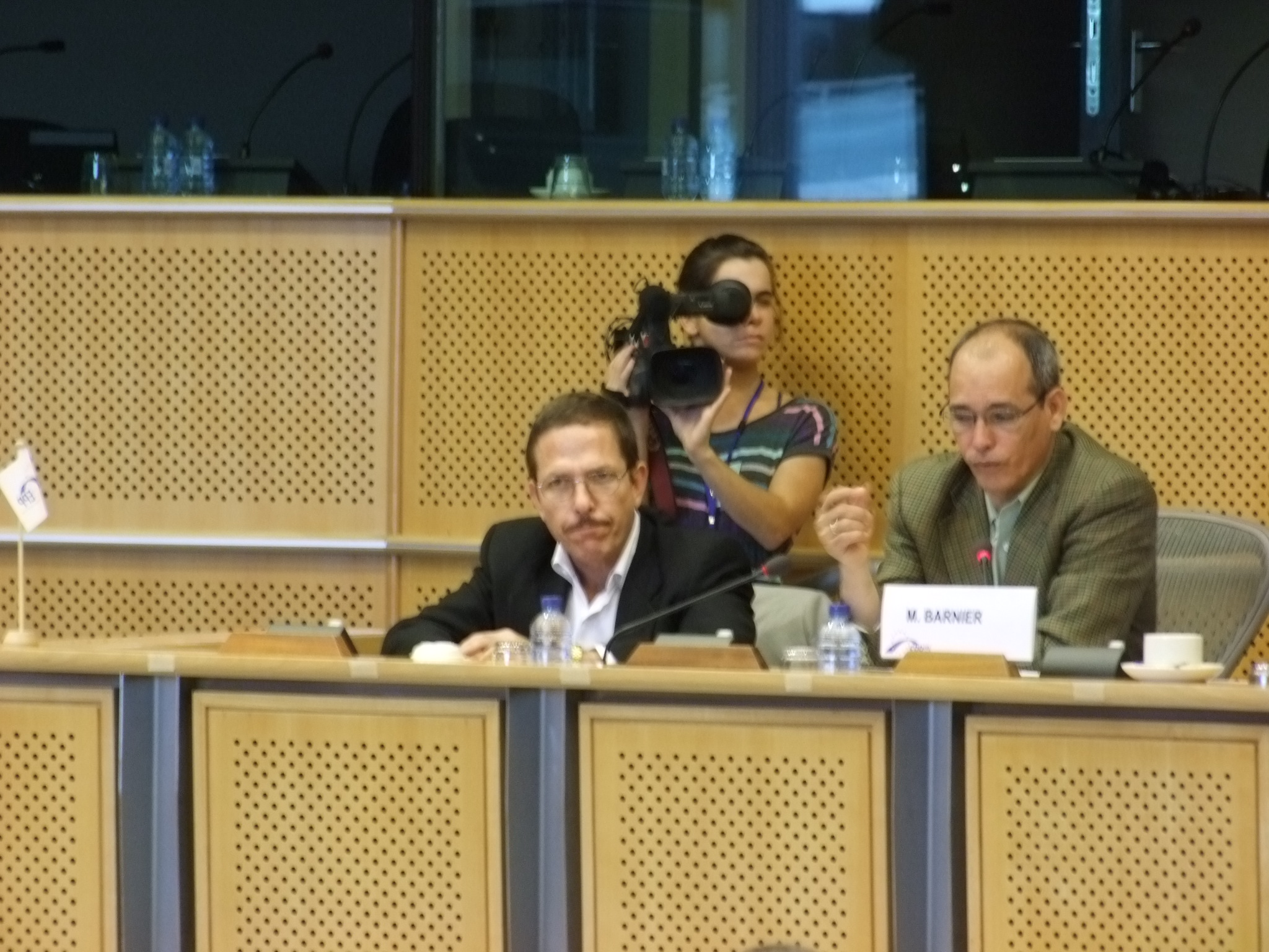 EPP Political Assembly 13 September 2010